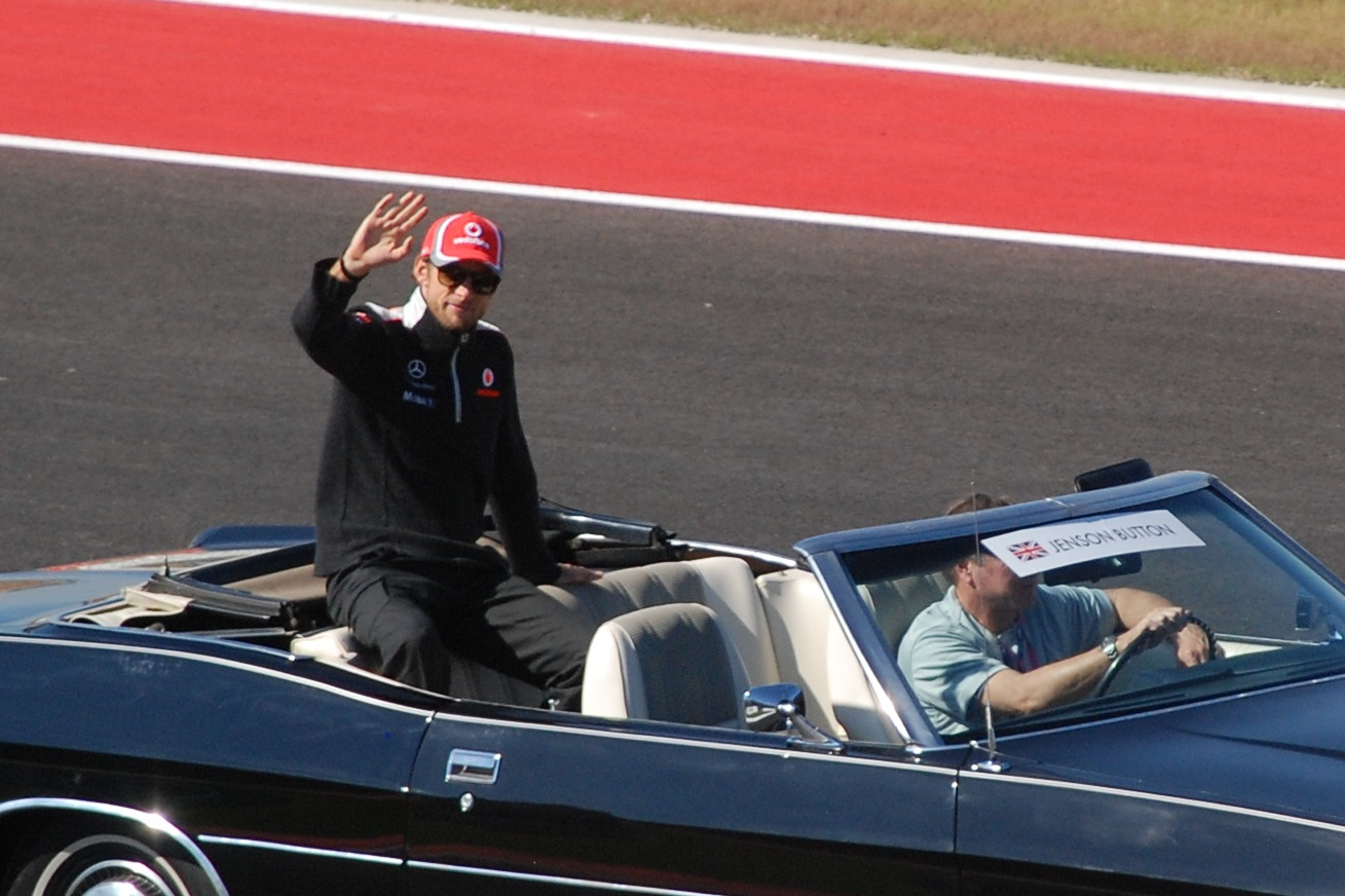 Jenson Button, United States Grand Prix, Austin 2012